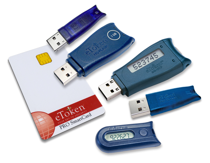 eToken PRO smart card & USB Token, eToken NG-Flash, eToken NG-OTP, eToken PRO (Java), and eToken PASS